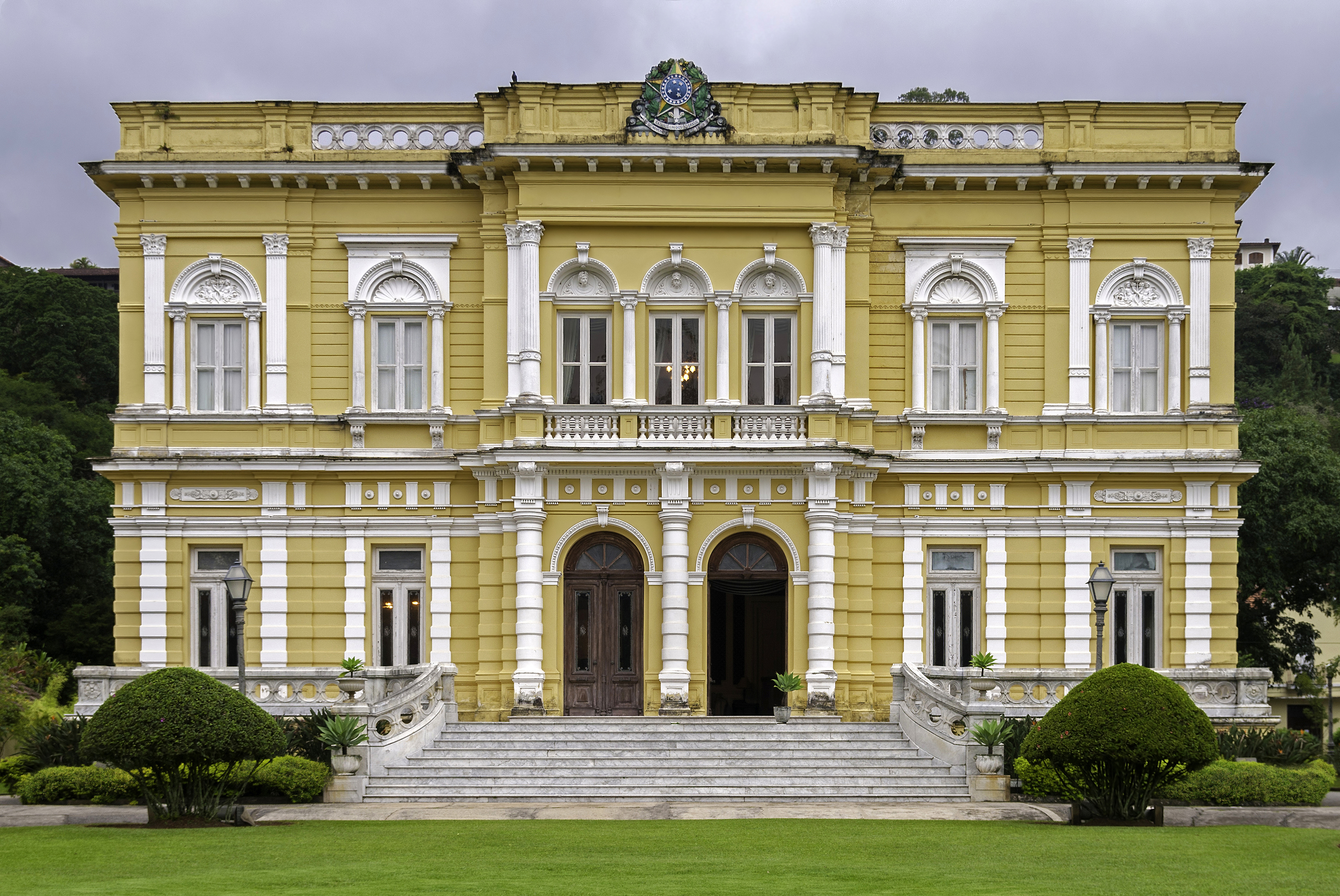 President's Summer home, The Palácio Rio Negro (